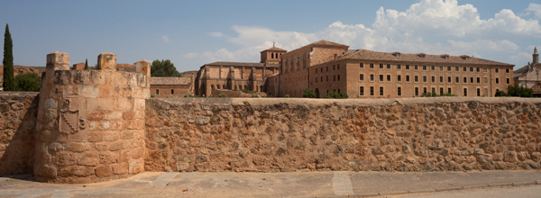 Monasterio de Santa Maria de Huerta; Santa Maria de Huerta, Castilla y León, Soria, Spain; ; ref: PM_094553_E_Santa_Maria_de_Huerta; ; Photographer: Paul M.R. Maeyaert; © Paul M.R. Maeyaert; ; Cultural heritage; Europeana; Europe/Spain/Huerta; Europe/Spain/Huerta (Monasterio de Santa Maria de -); Europe/Spain/Monasterio de Santa Maria de Huerta; Europe/Spain/Santa Maria de Huerta